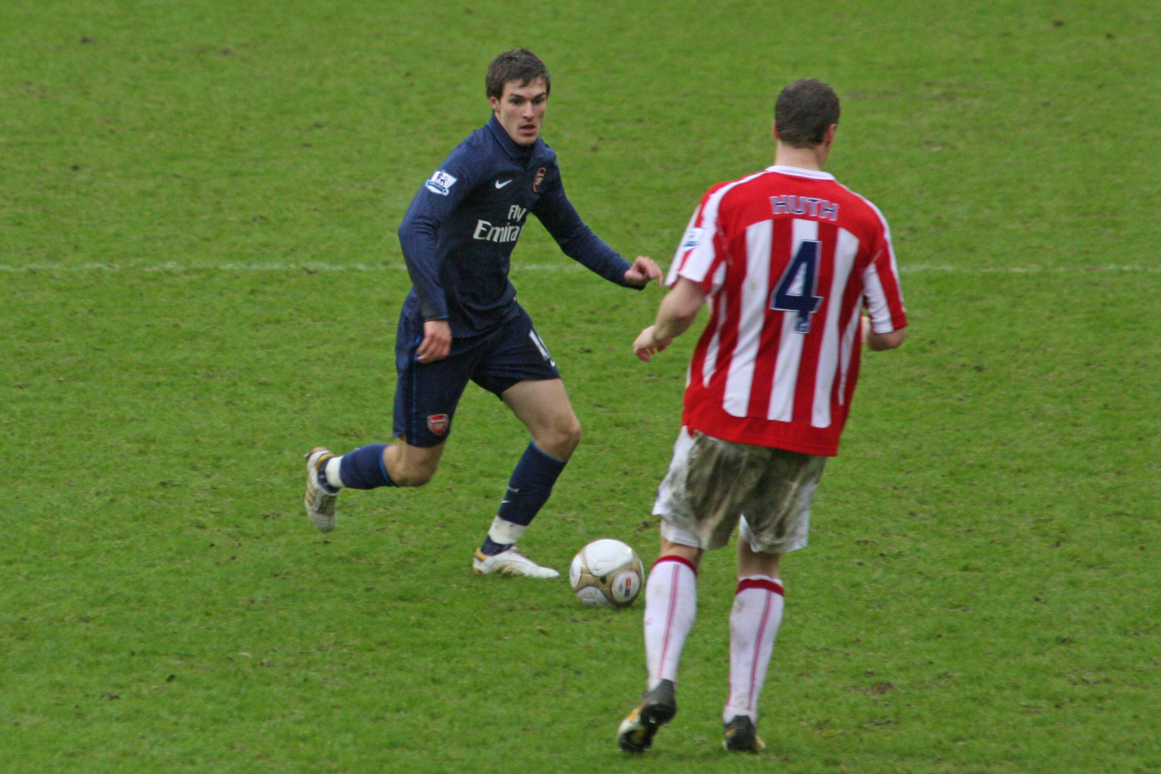 Stoke City FC V Arsenal 65